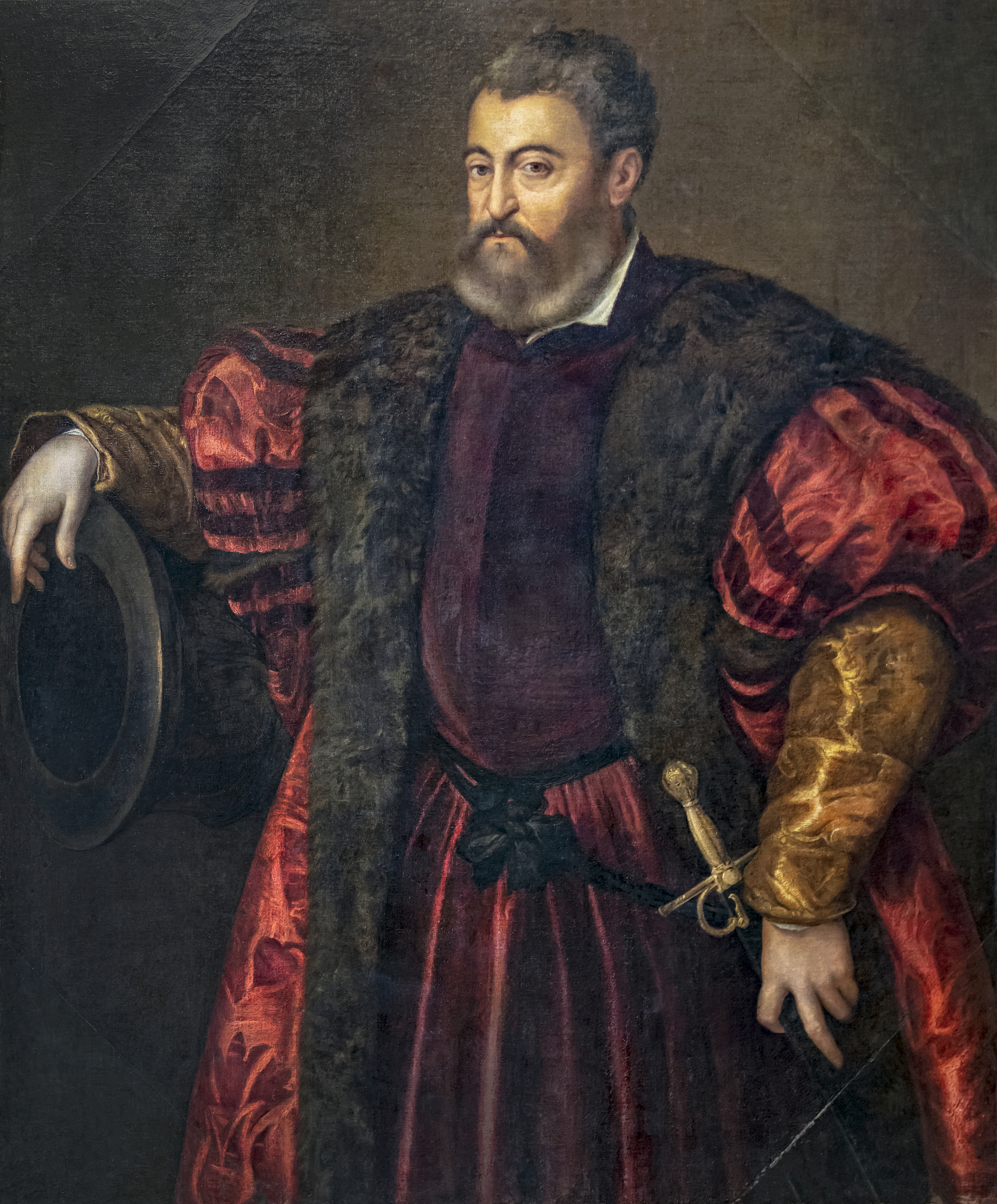 Depicted person: Alfonso I d'Este, Duke of Ferrara – Duke of Ferrara, Modena and Reggio